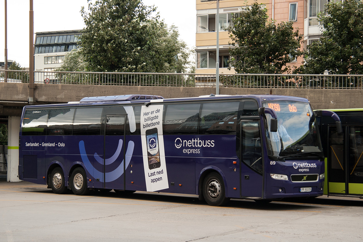 Nettbuss express NX190 from Kristiansand in Oslo.